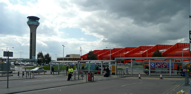 Control tower and Easyjet building Landmarks at Luton Airport.